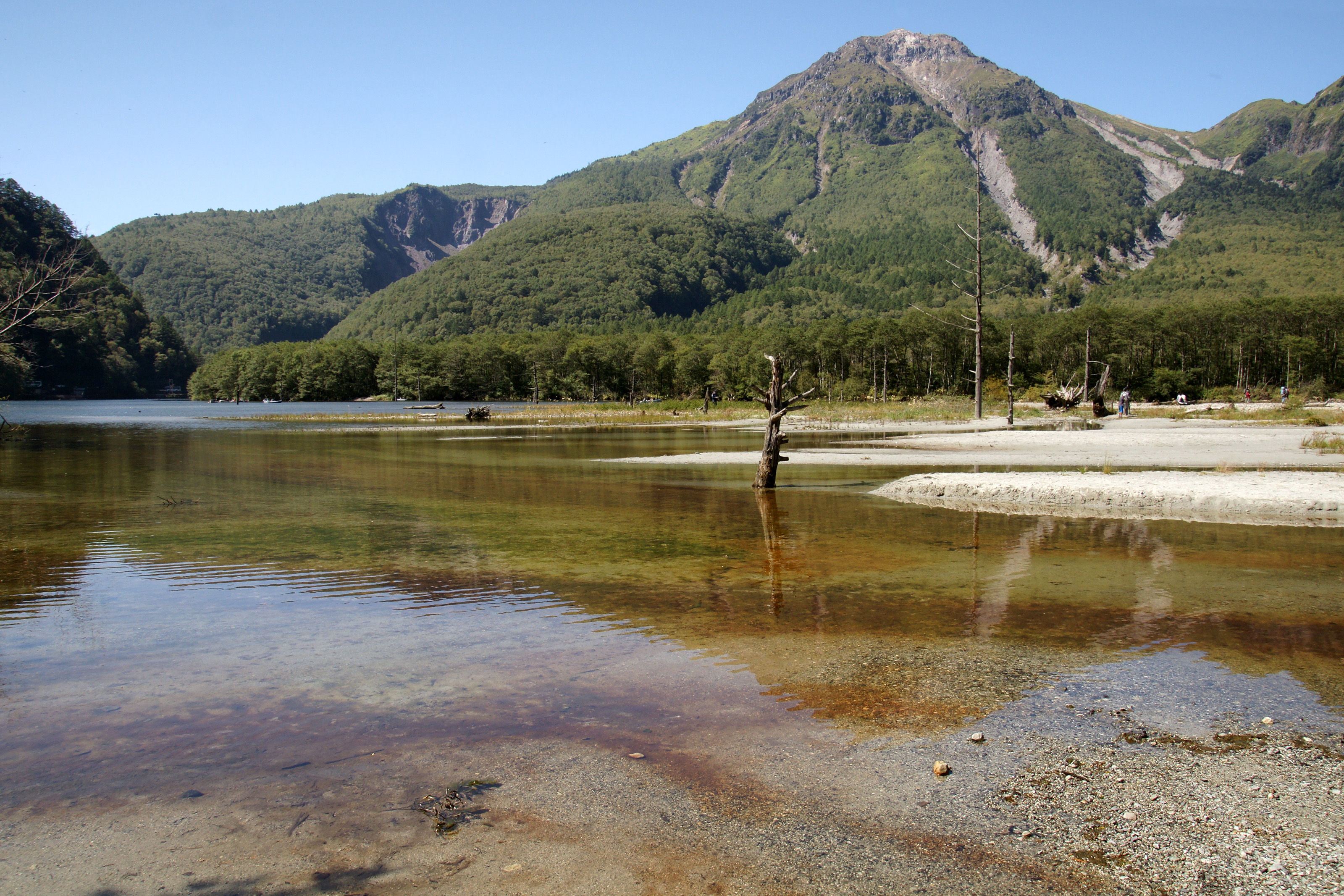 Taisho-ike at Kamikochi in Matsumoto, Nagano prefecture, Japan